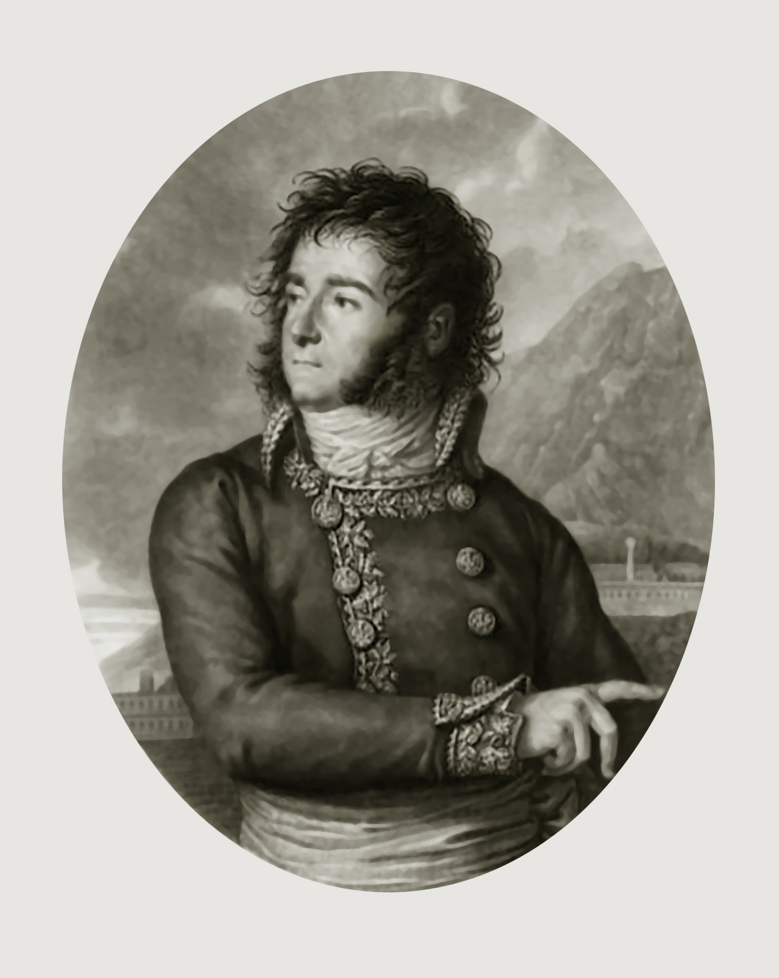 Jean-Antoine Marbot (1754-1800).